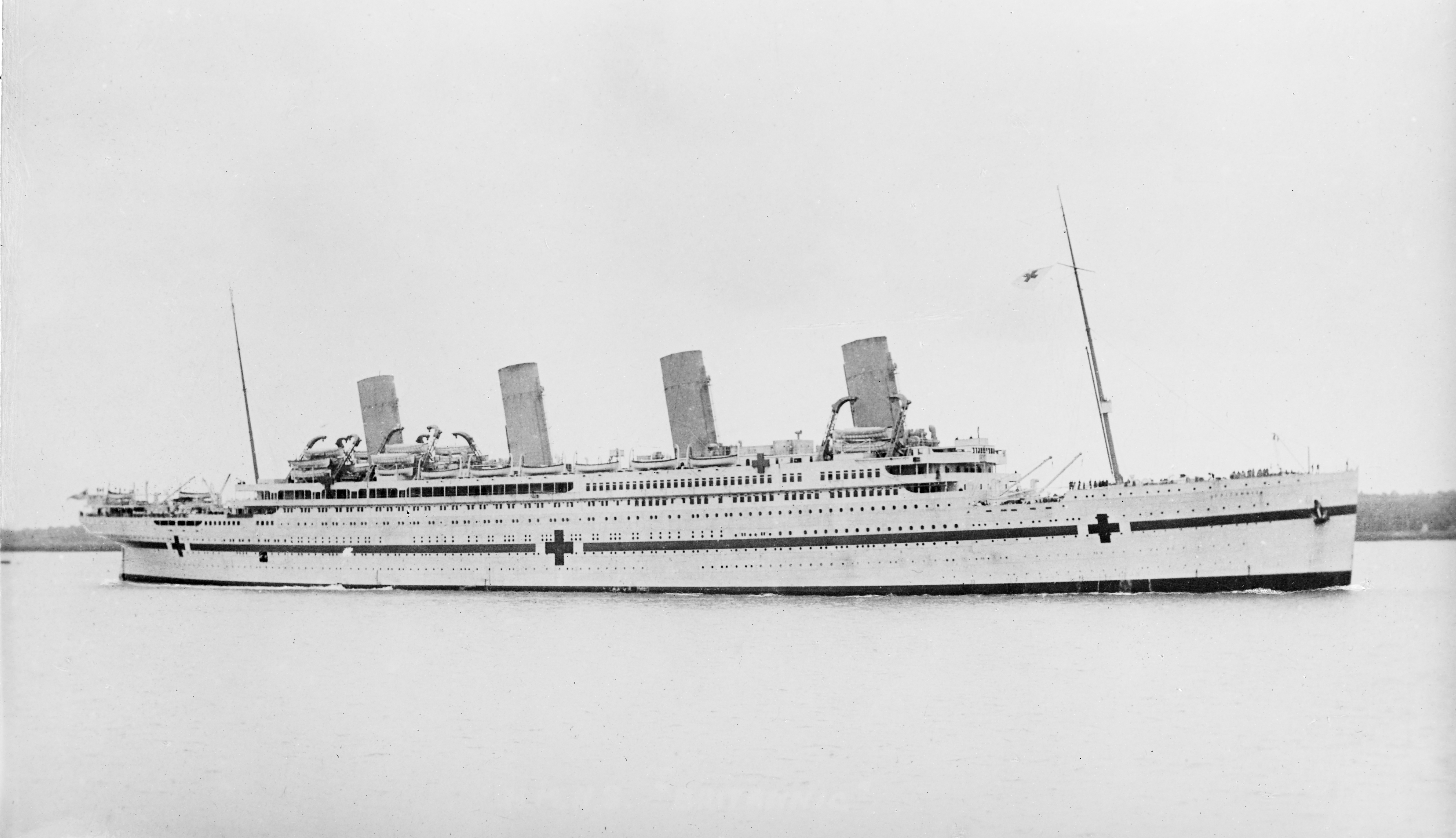 HMHS Britannic seen during World War I